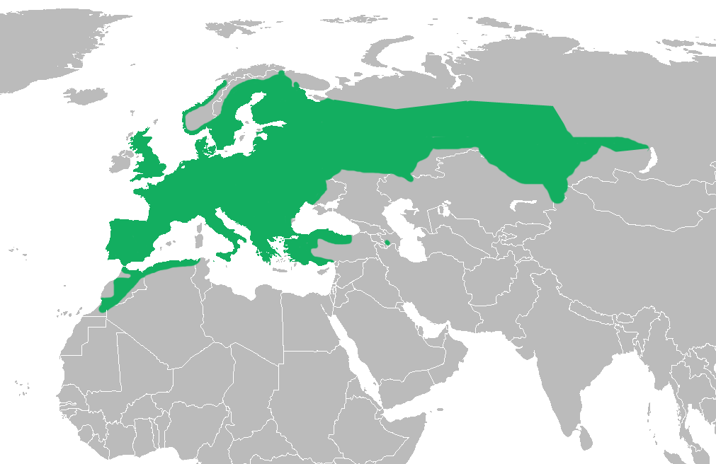 Range map of common toad (Bufo bufo).